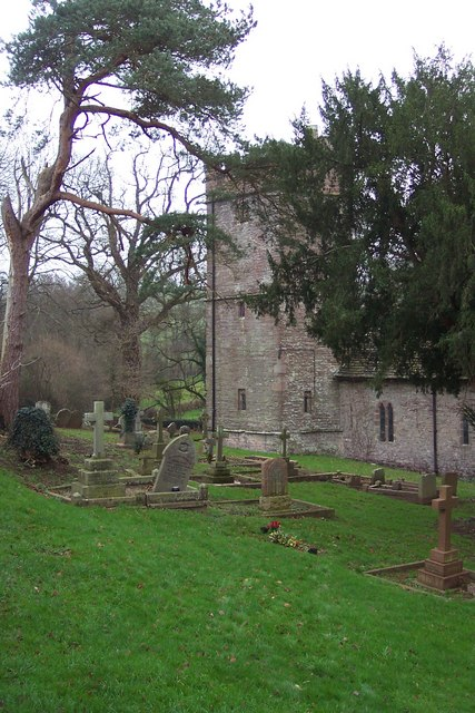 St Jerome's Llangwm With a significant rood screen. This church is less than half a mile from St John's in 299902